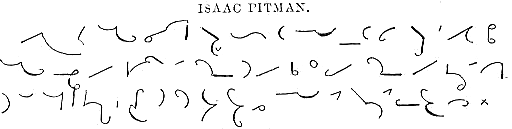 From the 1897 book Eclectic Shorthand by Cross. Scanned by Marlow4 and placed in public domain. It shows shorthand method of Isaac Pitman Cropped from